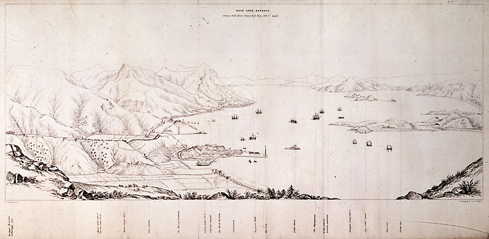 Hong Kong harbour from a hill above Causeway Bay.